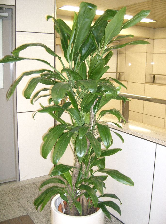 Cordyline terminalis 'Hiroba';Scientific name: Cordyline terminalis 'Hiroba'（synonym: Cordyline fruticosa 'Hiroba'）